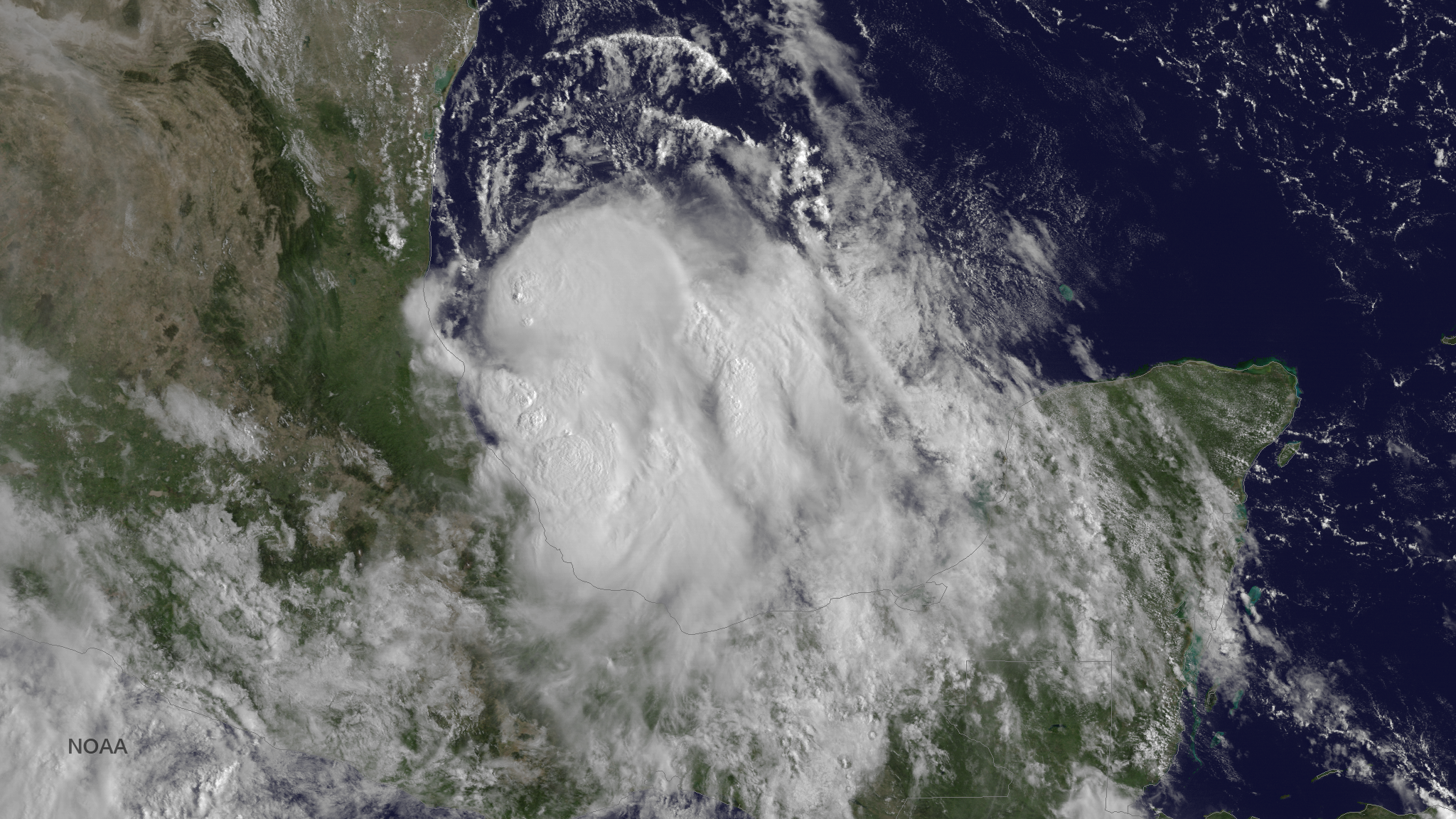 On the morning of September 2, an Air Force Reserve reconnaissance aircraft investigation, along with satellite supporting data, found wind intensities sufficient to make Dolly the fourth tropical storm of the 2014 Atlantic hurricane season. This image was taken by GOES East at 1415Z on September 2, 2014. —NOAA Staff